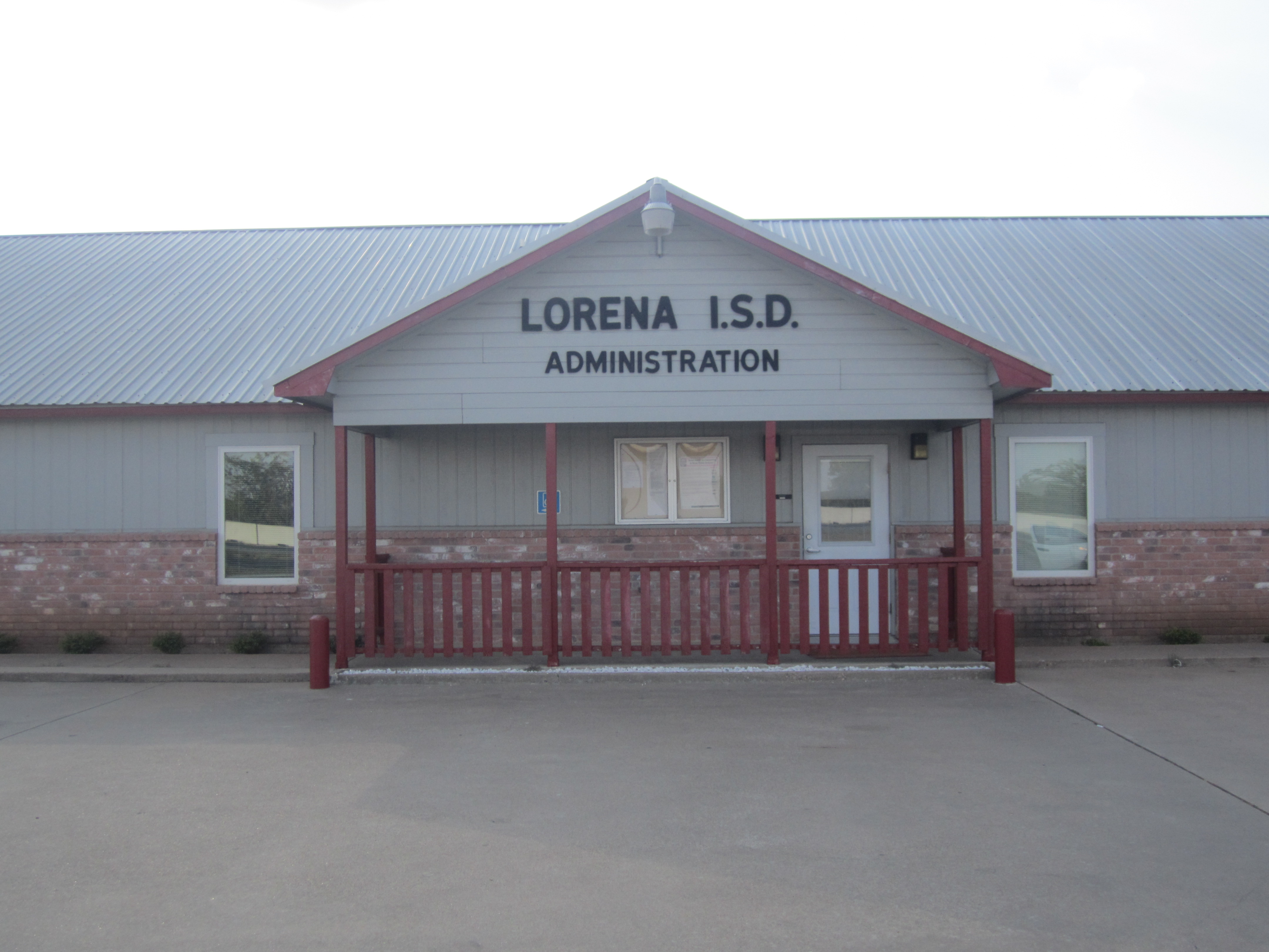 I took photo of Lorena, TX, Independent School District building, with Canon camera.